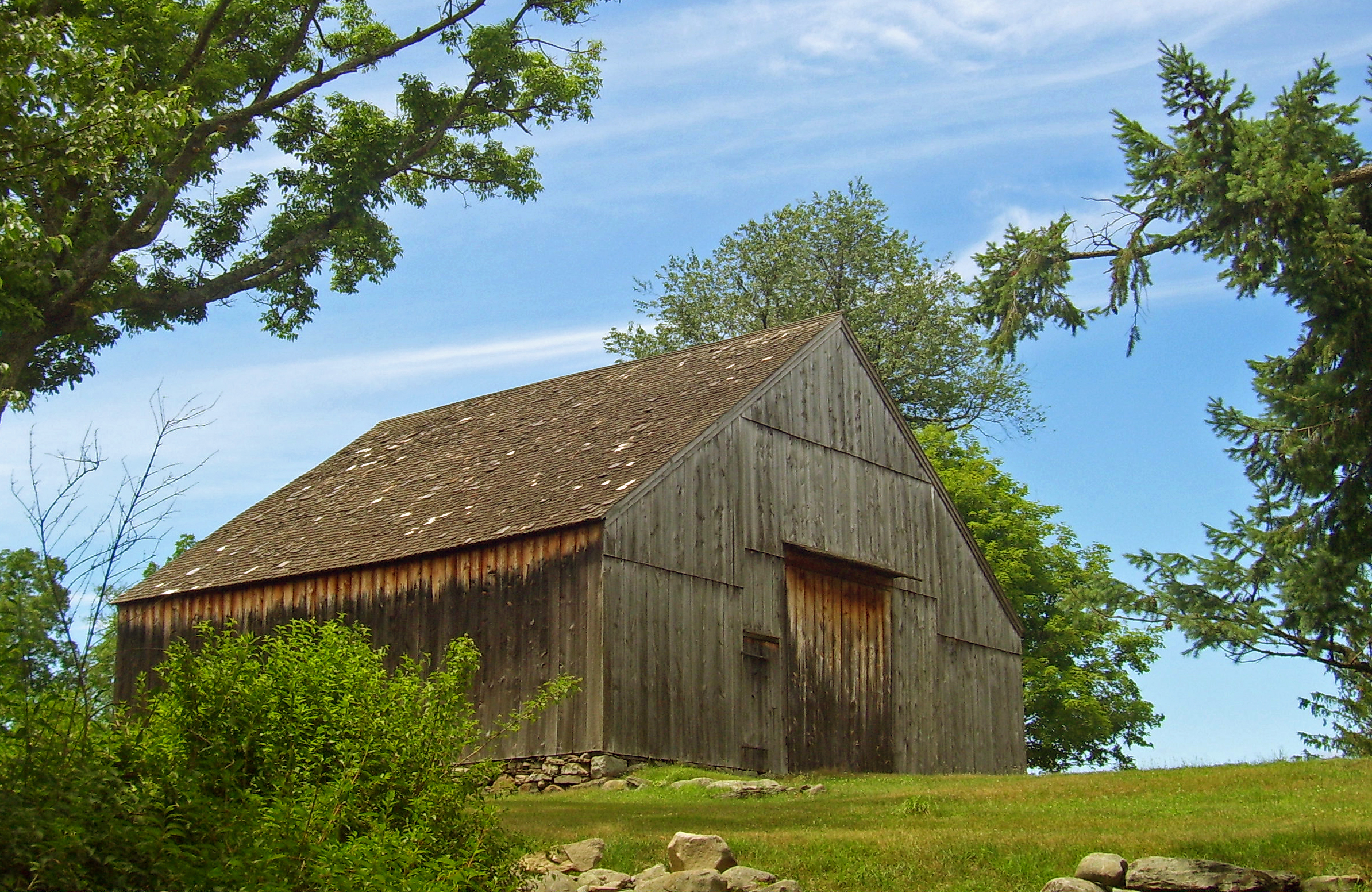 New World Dutch barn at Bull Stone House, Hamptonburgh, NY, USA. Built in the 1720s and more or less unaltered since, this is the only surviving New World Dutch barn, in Orange County, and one of the best-preserved overall.